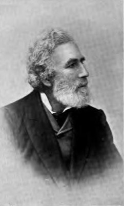 Portrait of Edward (1809–1899), English radical publisher.